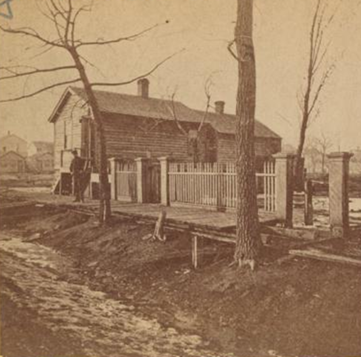 An image of Catherine O'Leary's cottage on DeKoven Street in Chicago.